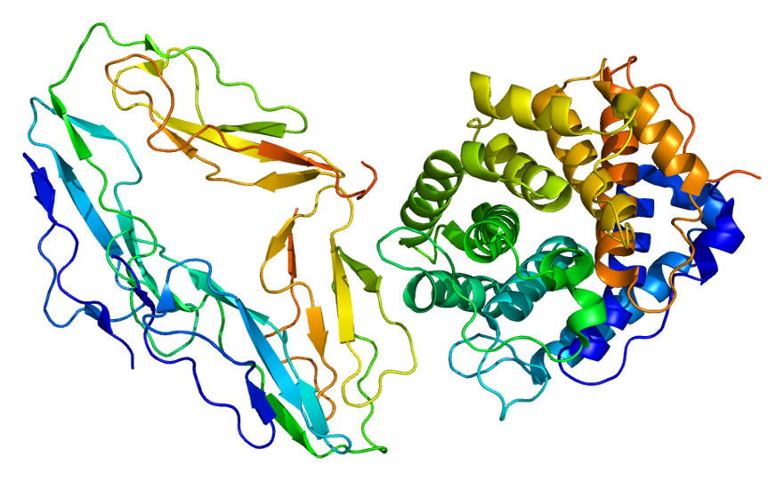 Structure of the CR2 protein. Based on PyMOL rendering of PDB 1ghq.